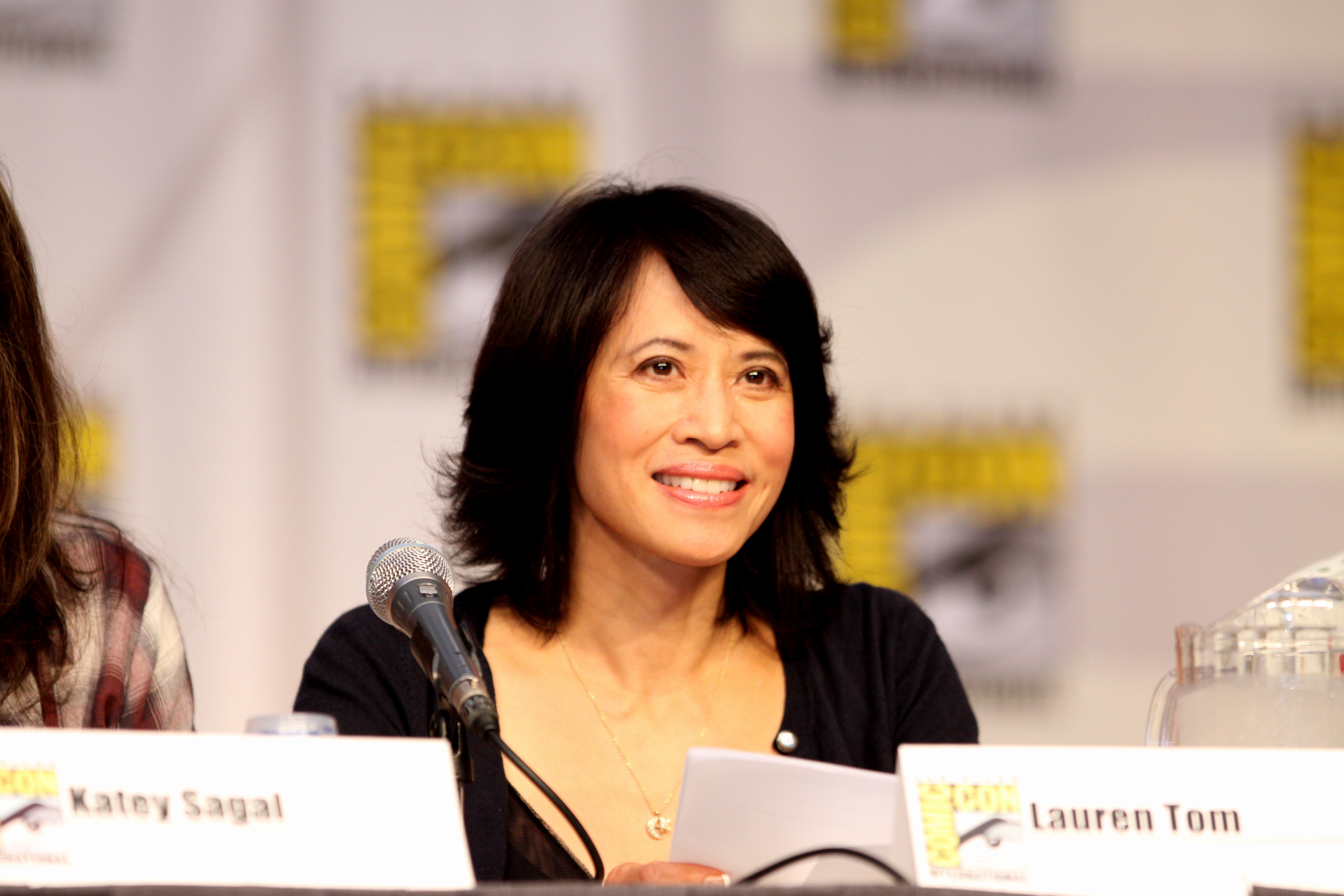 Lauren Tom on the Futurama panel at the 2010 San Diego Comic Con in San Diego, California.